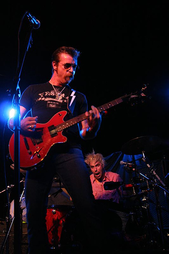 Eagles of Death Metal live at The Glass House (Pomona, CA)